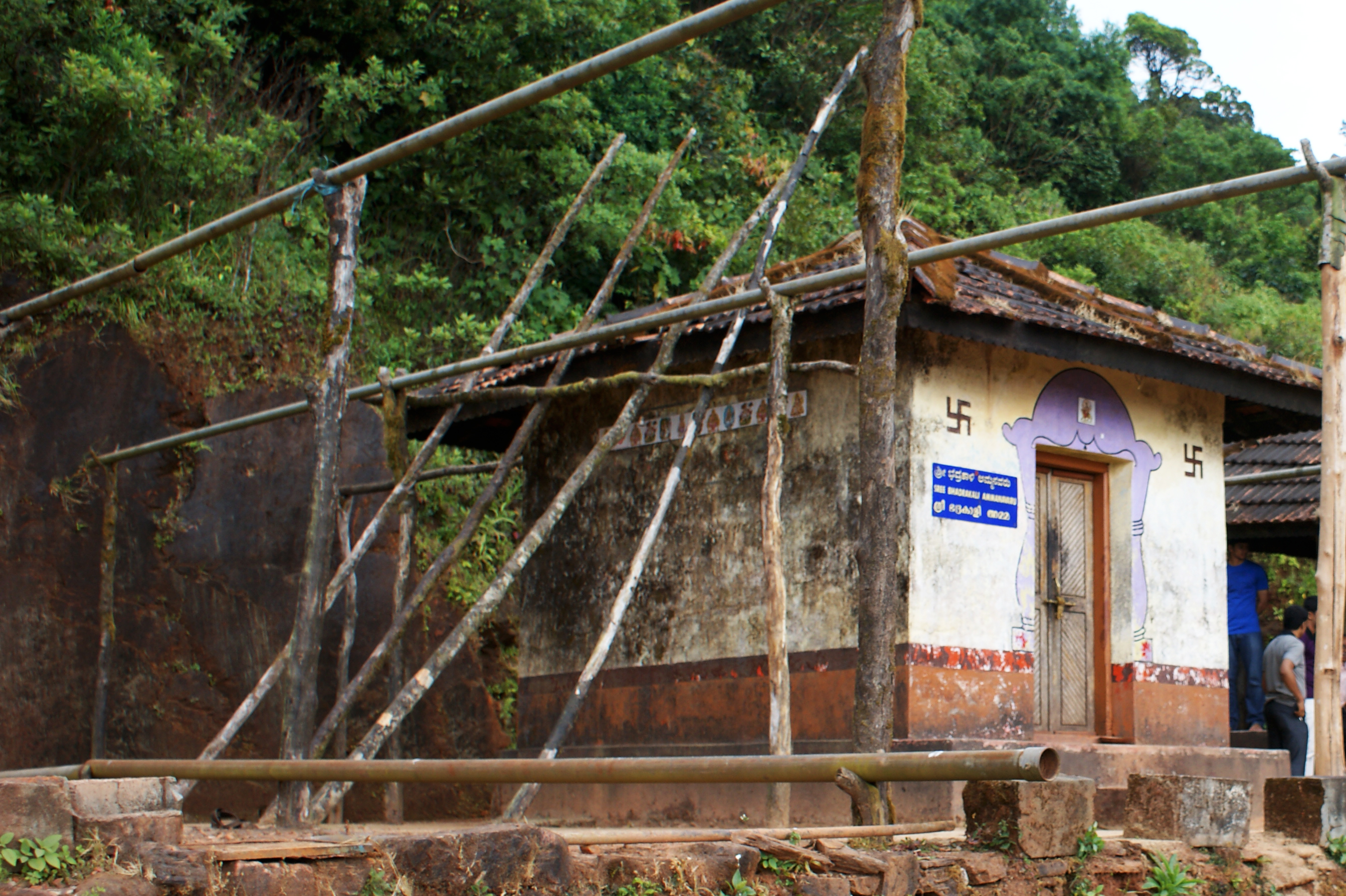 Bhadrakali Temple at Kodajadri Hill top